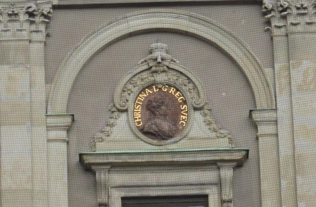 Christina, Queen Regnant of Sweden, as released by image creator Ristesson HistoryPlace: Stockholm Palace, Sweden